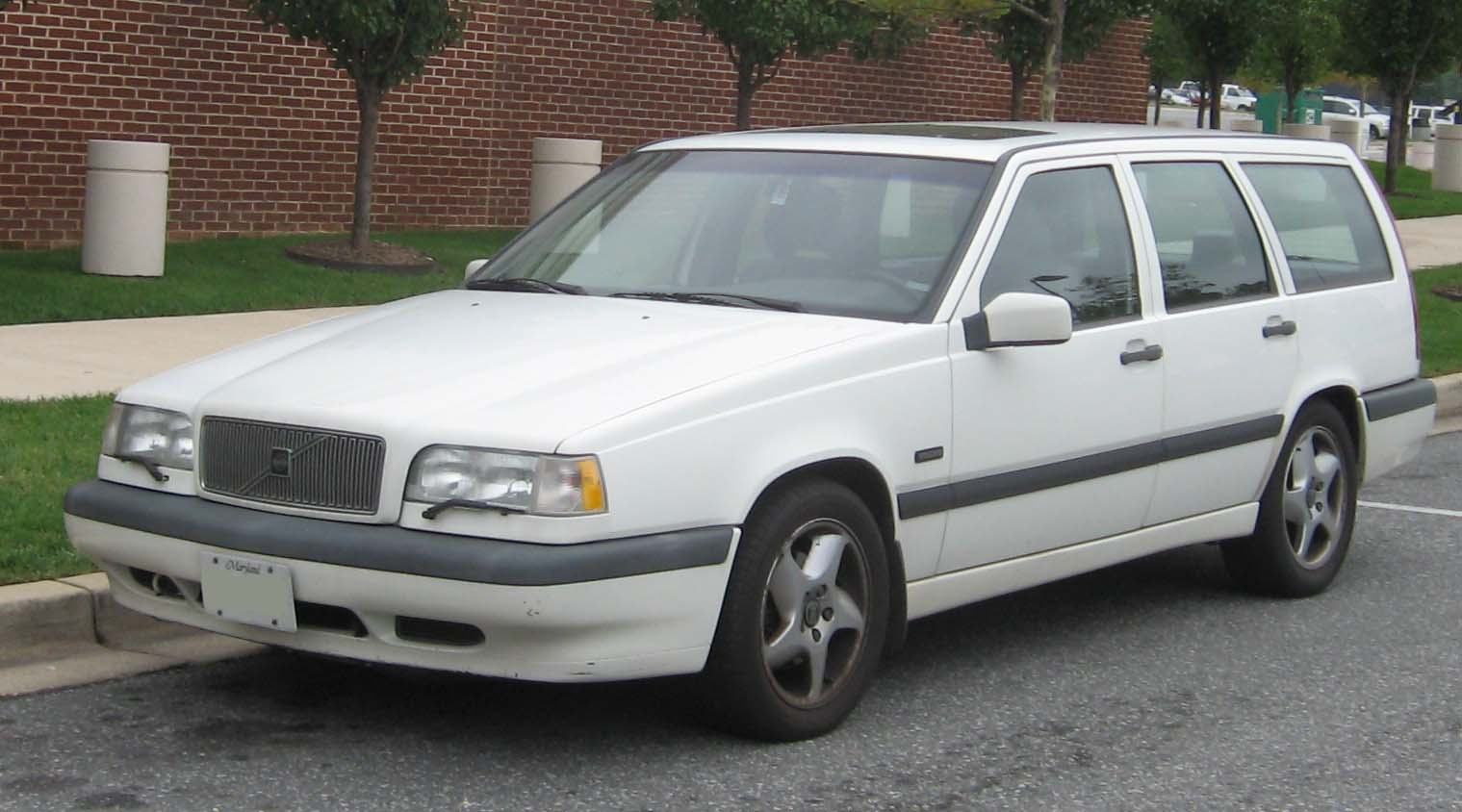 Volvo 850 photographed in College Park, Maryland, USA.